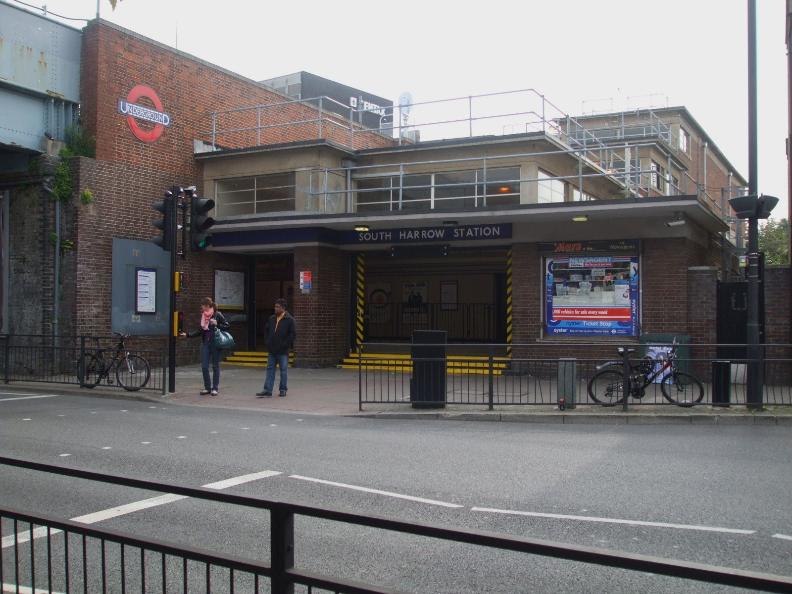 South Harrow tube station southern entrance. A similar entrance lies to the north of the rail bridge.